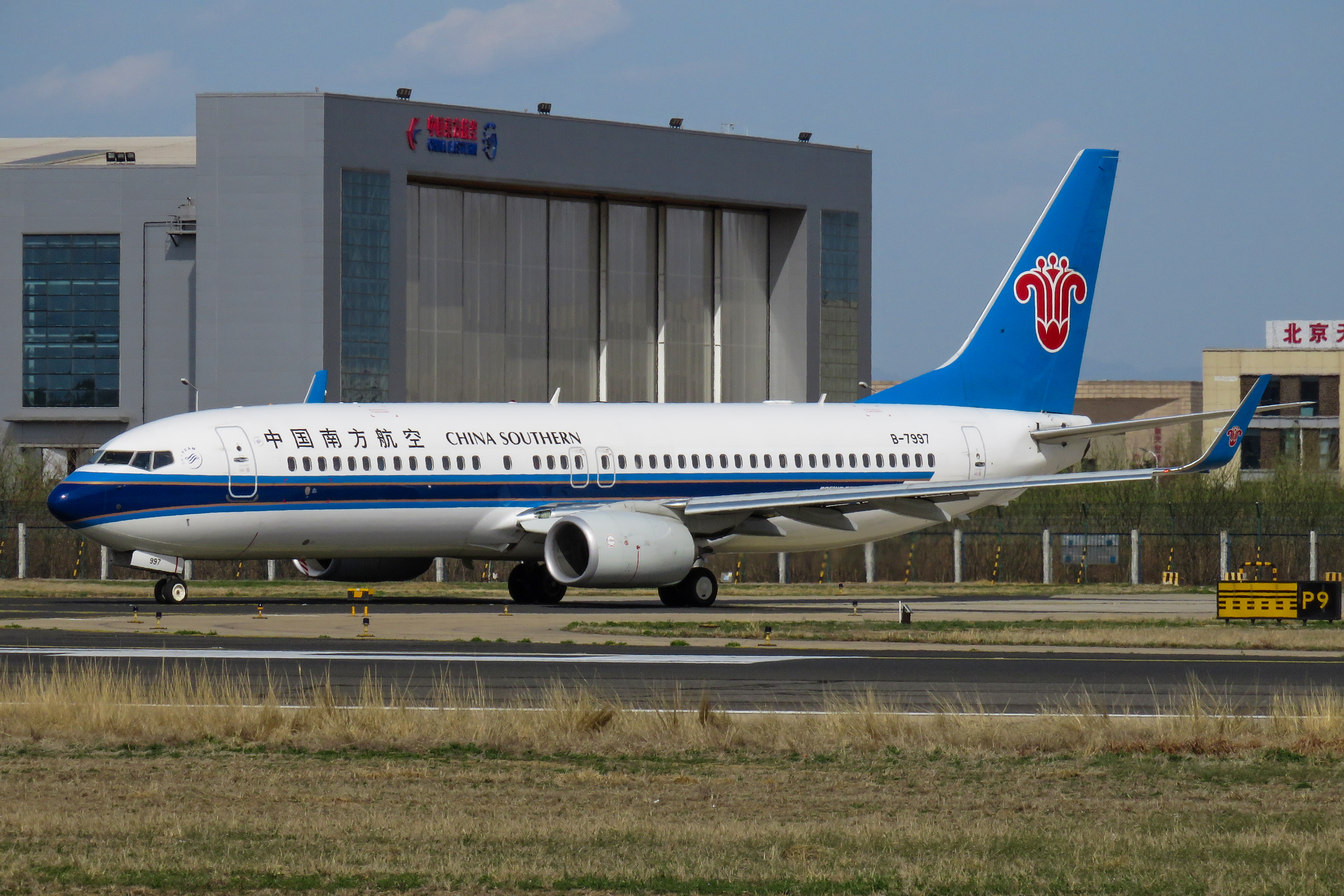 China Southern 6025 to Urumqi.